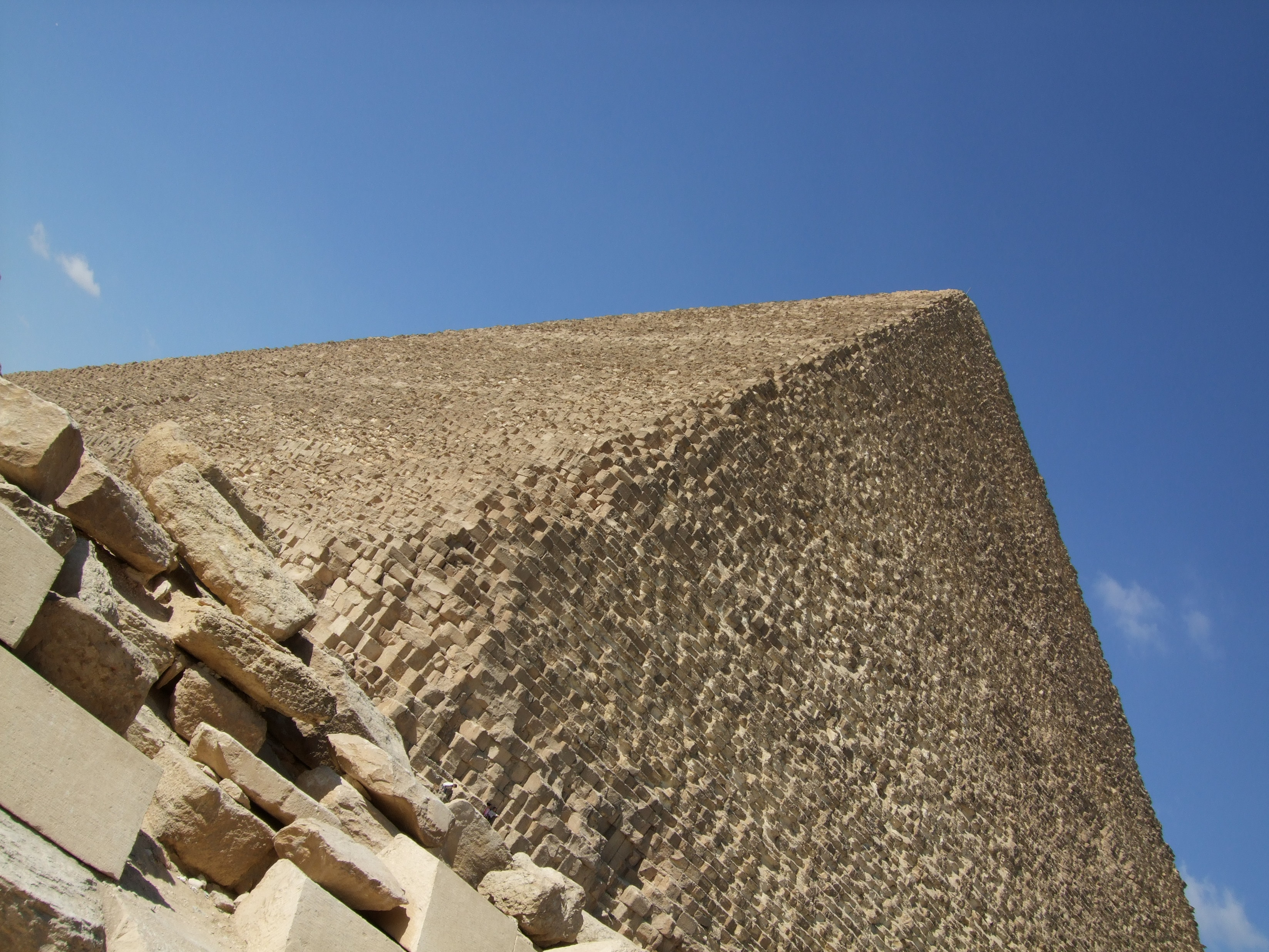 Picture of the Cheops-pyramid